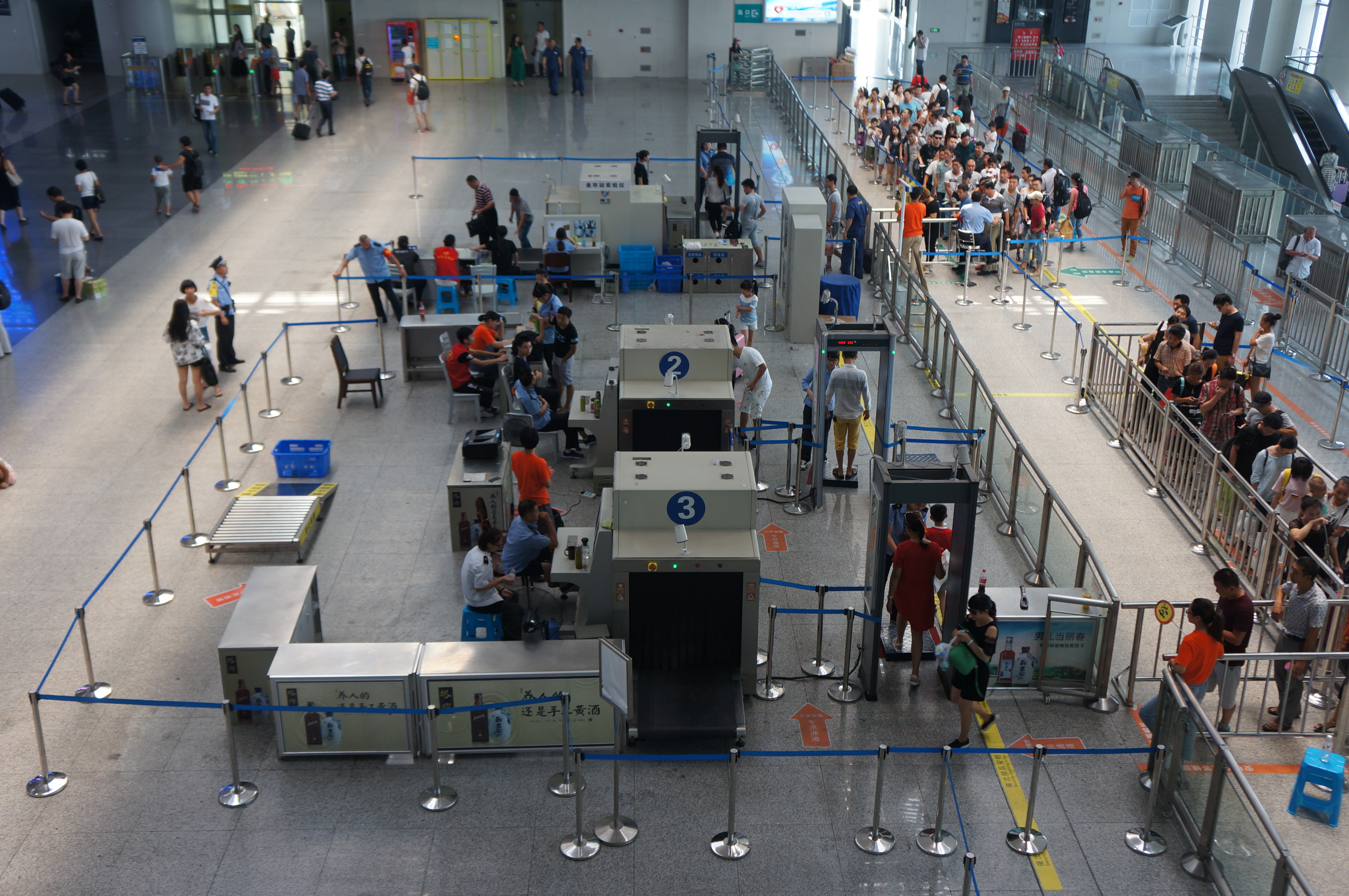 201608 Security Check area at Jinhua Station N before G20, the station staffs just doubled the security equipemtns together.